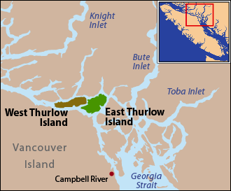 This is a locator map of East Thurlow Island and West Thurlow Island. I, Pfly, made it with ArcGIS, Adobe Illustrator, and Adobe Photoshop. The coastline data is from the Digital Chart of the World.